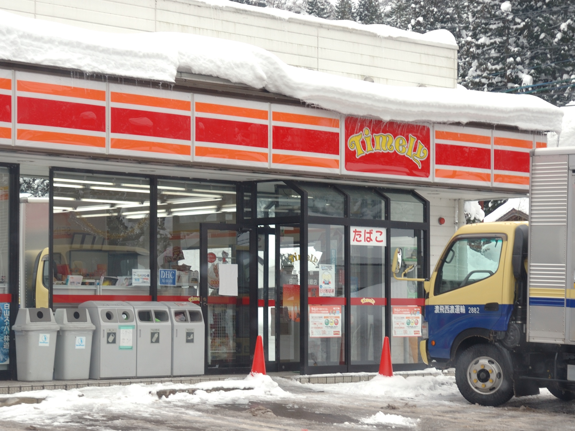 Photograph of Shirakawamura Shirakawago Timely exterior, it is convenience store in Shirakawa Village, Gifu Prefecture, this photo date is January 6, 2006.